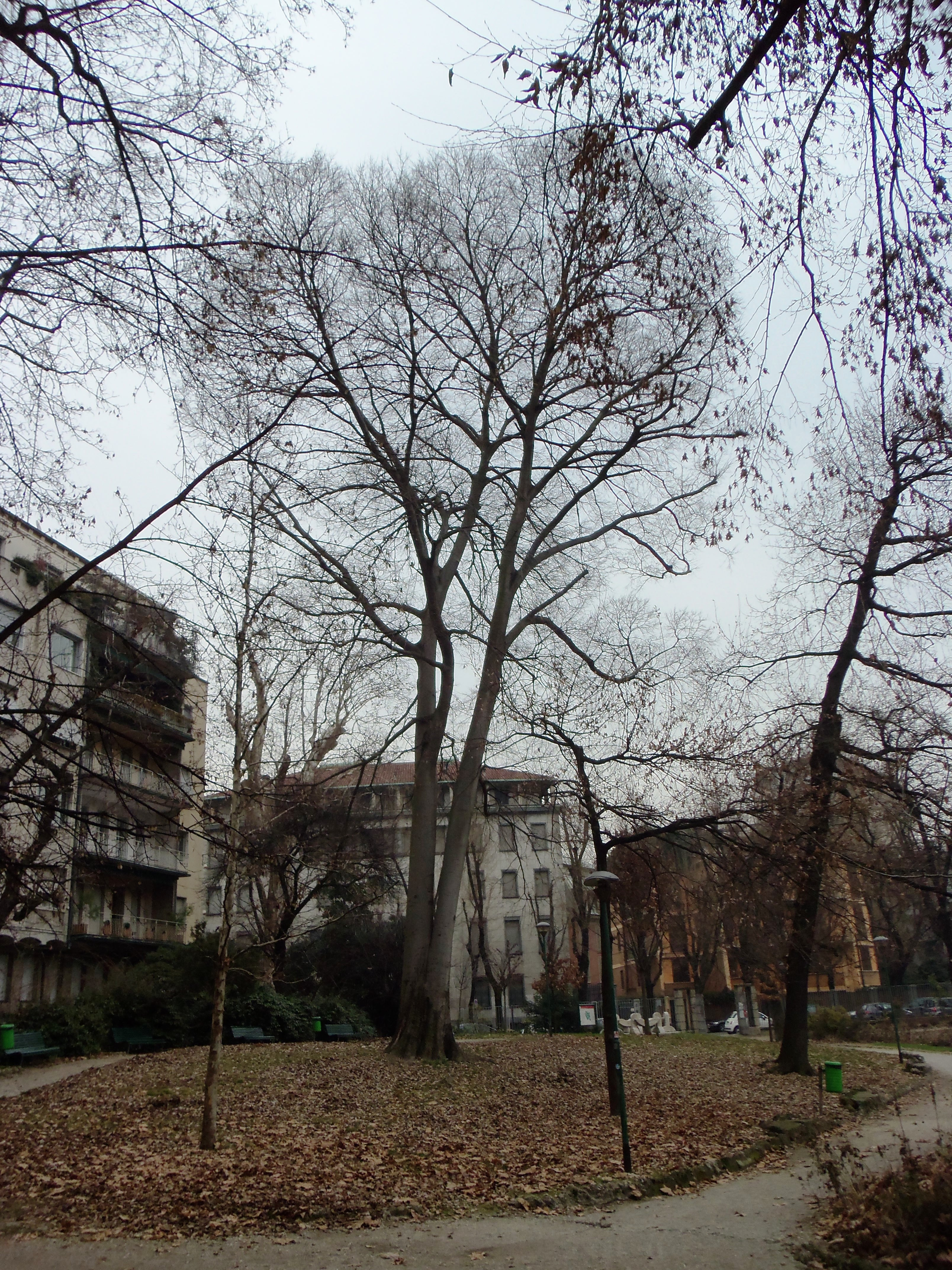 Milano, Giardini Perego: the big bagolaro (Celtis australis) in midgarden